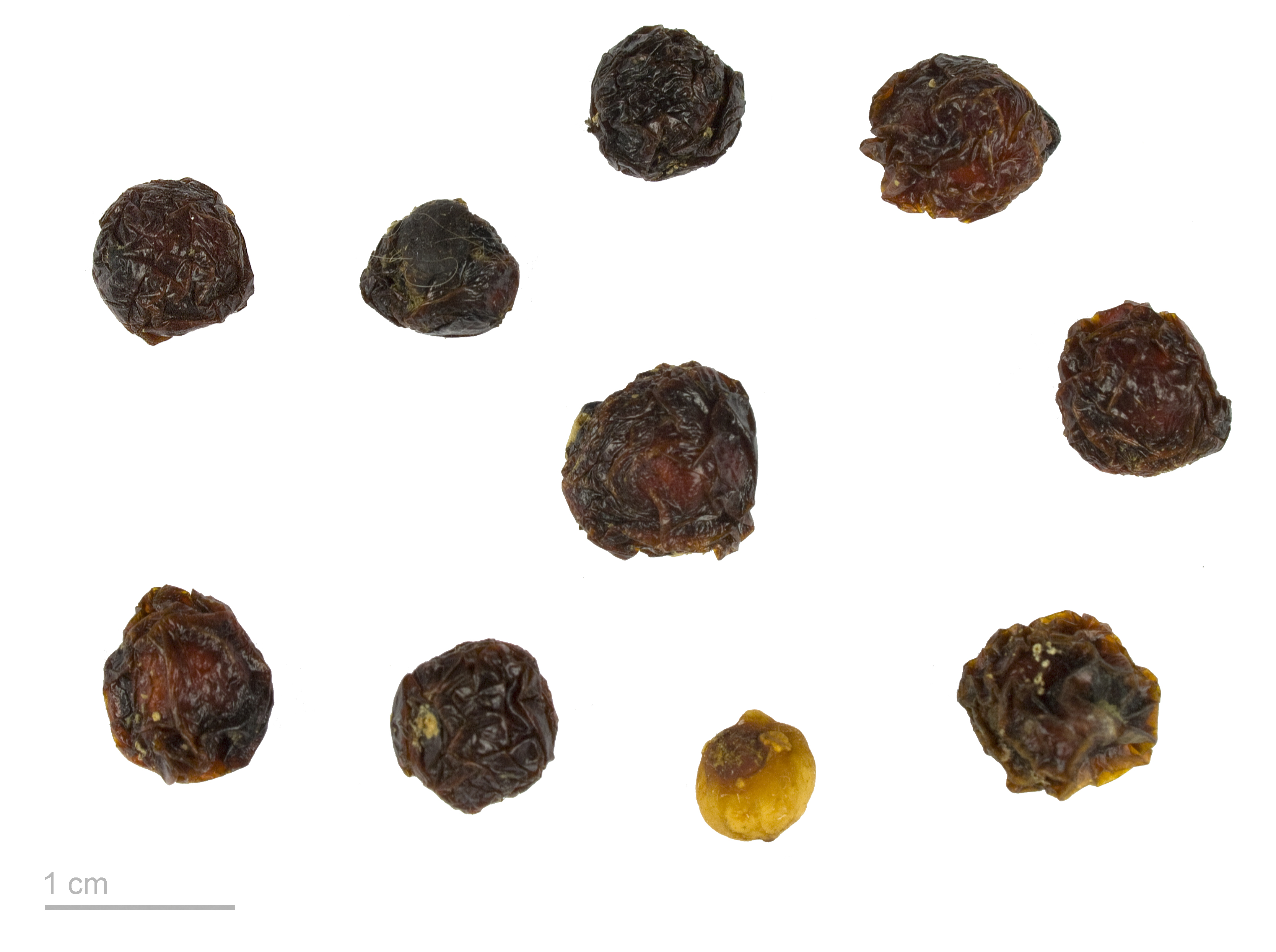 spineless butcher's-broom, fruits and seeds